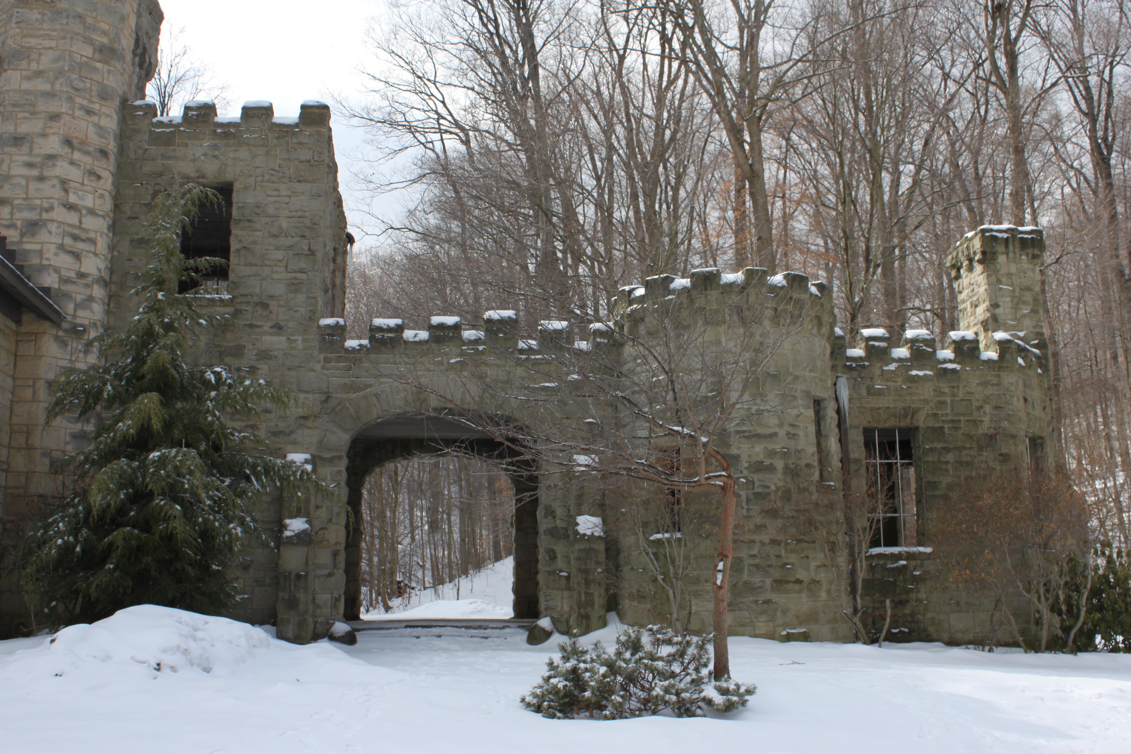 el castillo en invierno